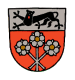 Coat of Arms of Reichenberg